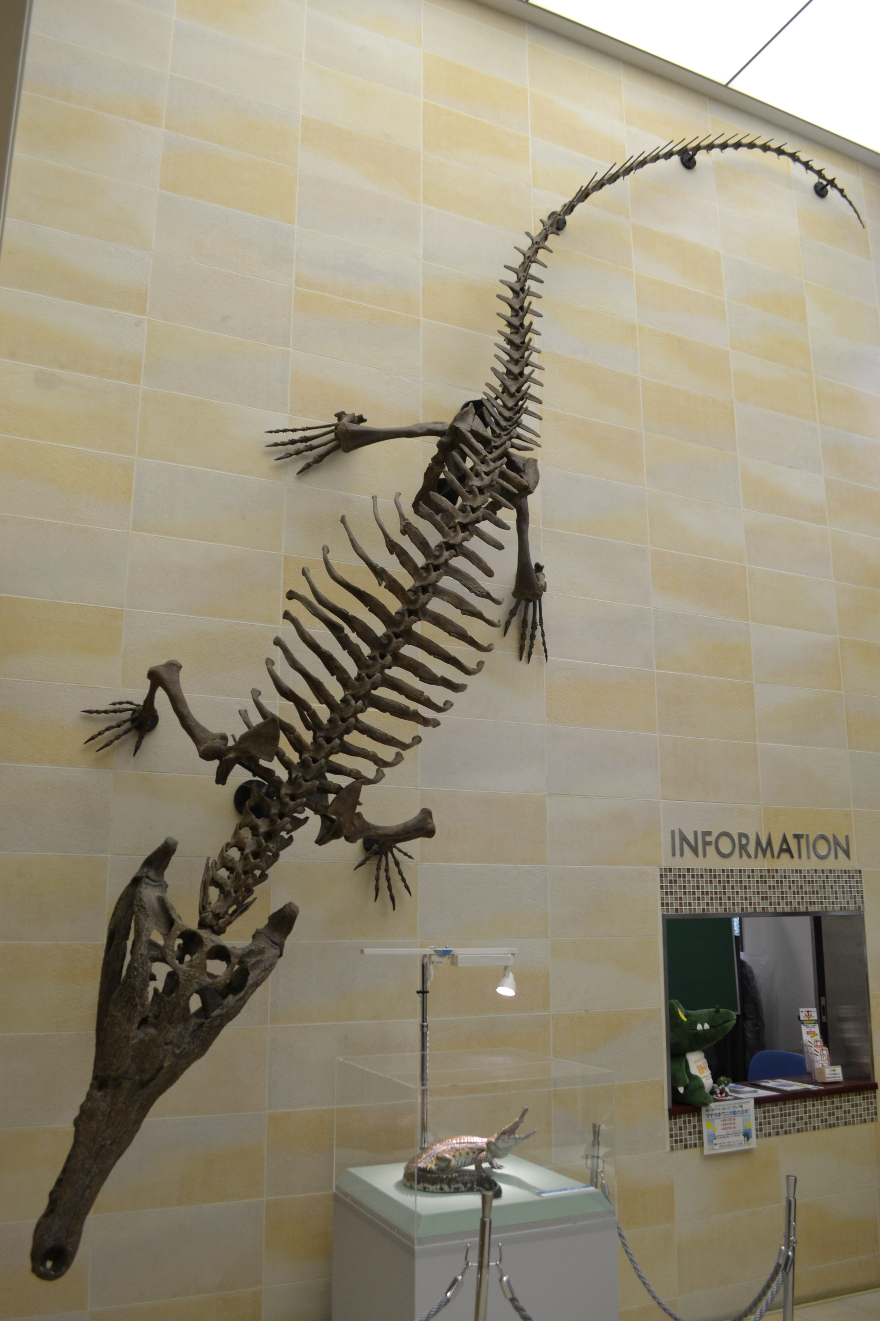 Machikanewani Toyotamaphimeia machikanensis in Museum of Osaka University.